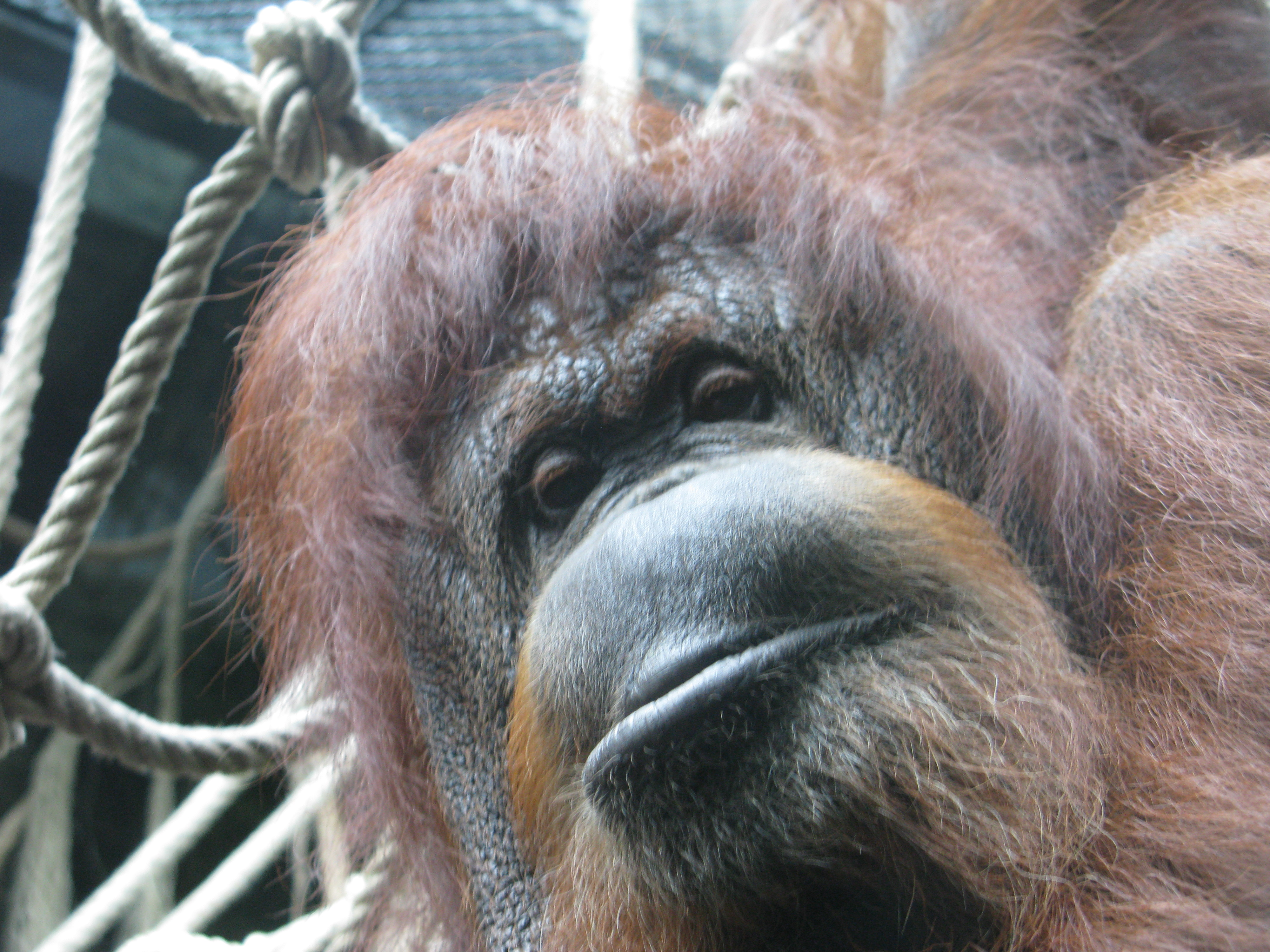 The female Bornean orangutan (pongo pygmaeus pygmaeus) Nenette (born in 1969), at the Ménagerie du Jardin des plantes in Paris.